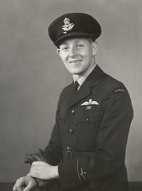 Studio portrait of Pilot Officer Leslie Knight